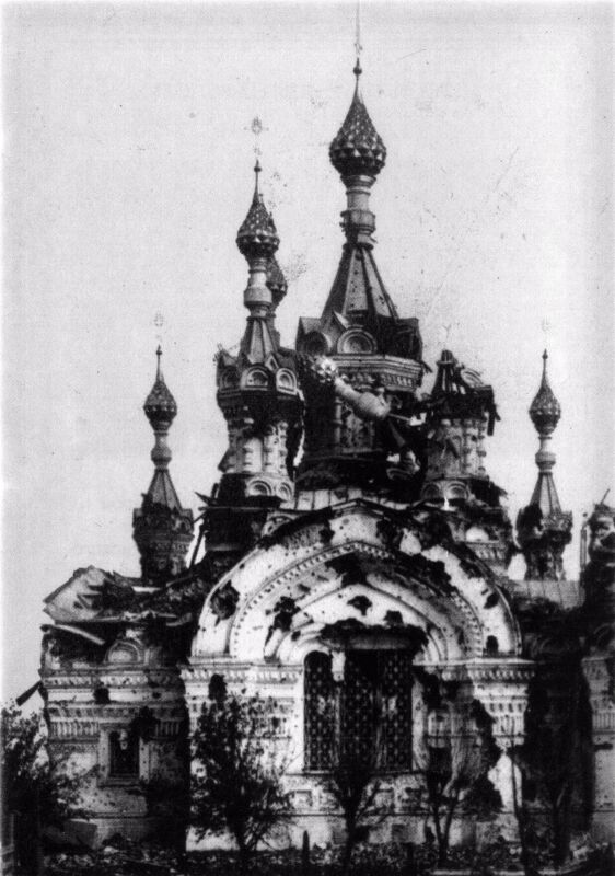 Yaroslavl, Church of the Protection of the Theotokos (1905) on Borisoglebskaya Street after being damaged in the 1918 Yaroslavl Revolt. The church was demolished in 1930.